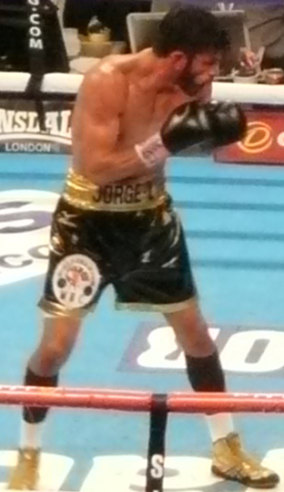 Jorge Linares at The O2 Arena, fighting Kevin Mitchell for the WBC lightweight title.